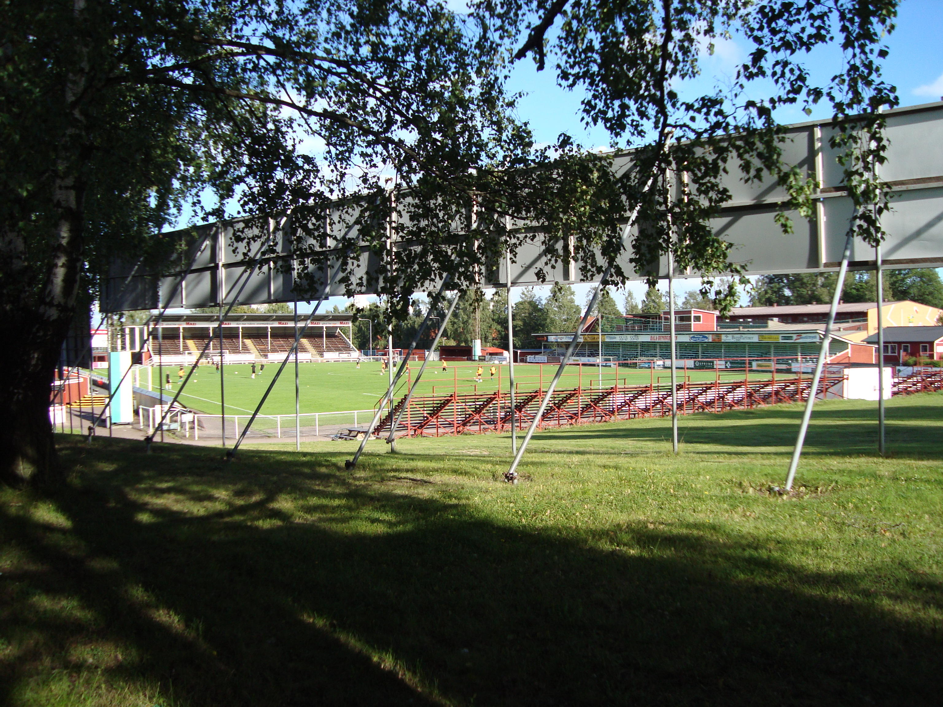 Domnarvsvallen association football field, Borlänge